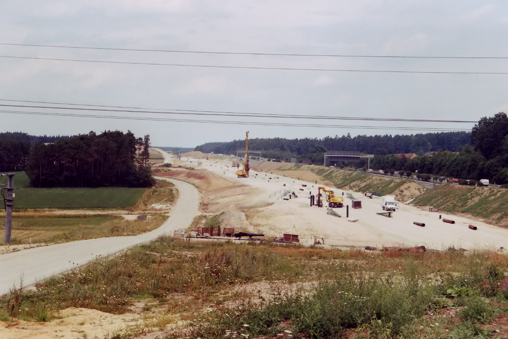 The railway station of Allersberg, at the Nuremberg-Ingolstadt high-speed railway line, under construction.